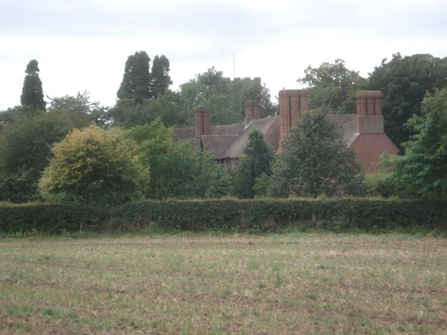 Salwarpe Court View west from the public footpath with Salwarpe Church tower directly behind.